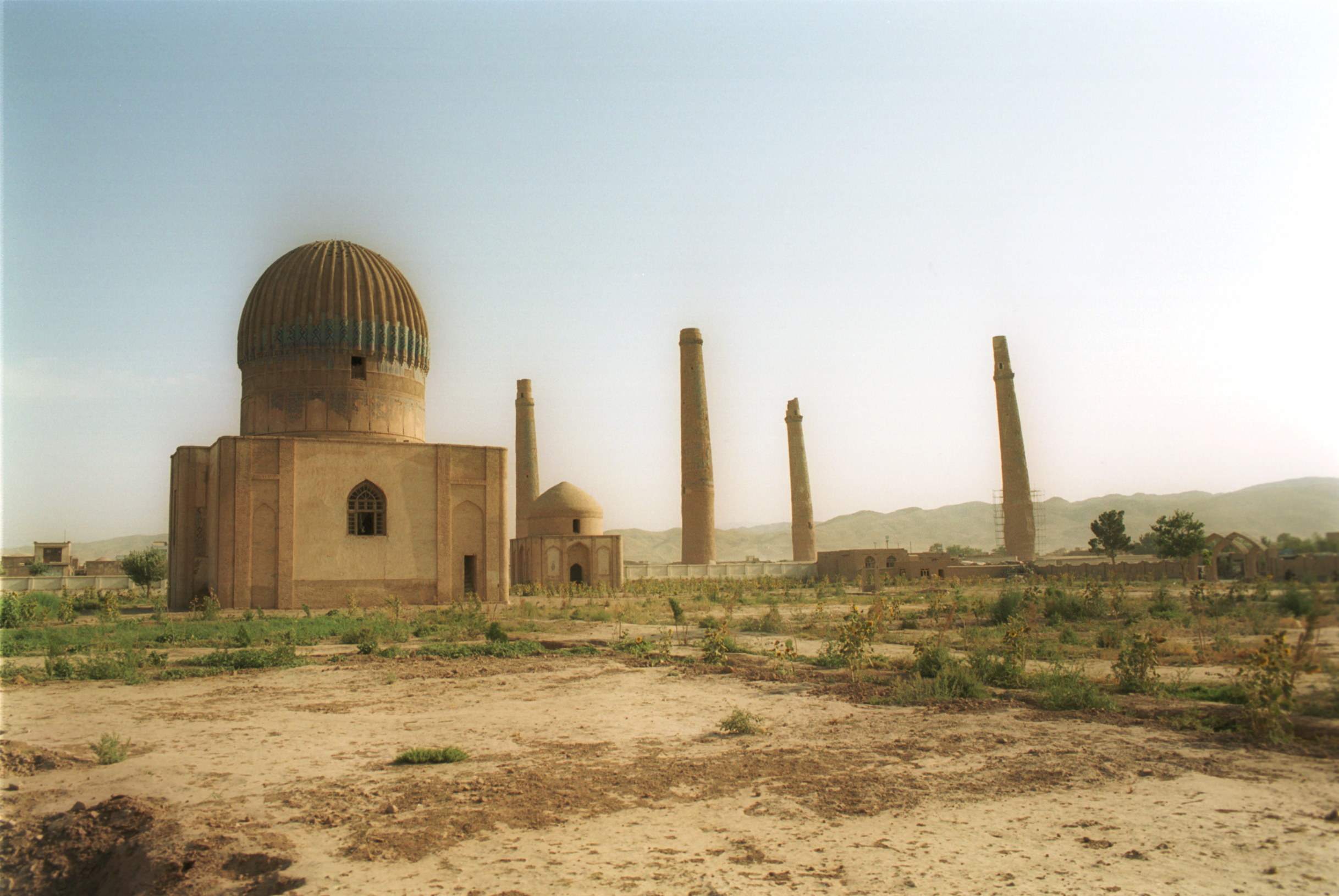 Tomb of Gowharshād